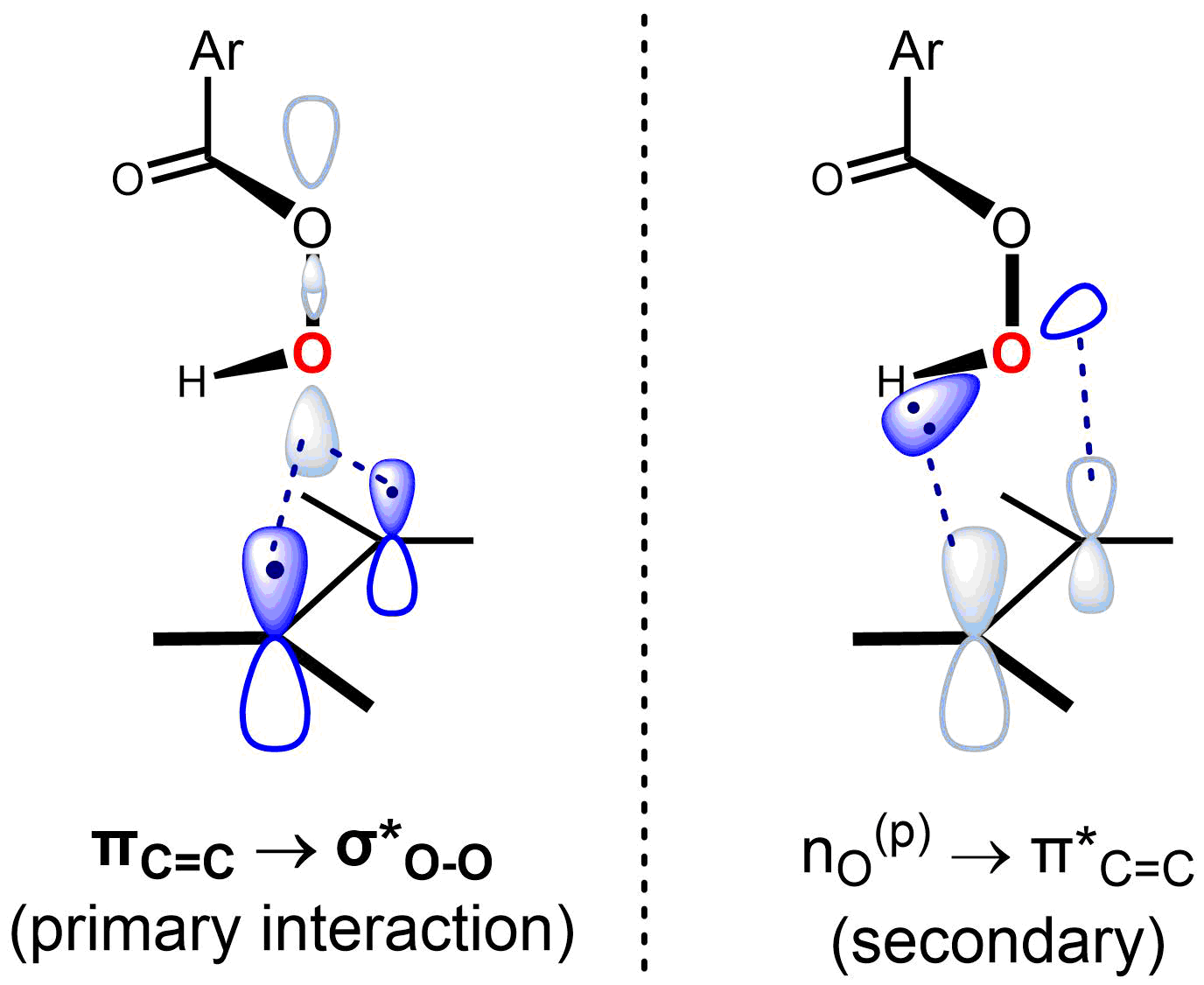 the frontier orbital picture of an mcpba epoxidation